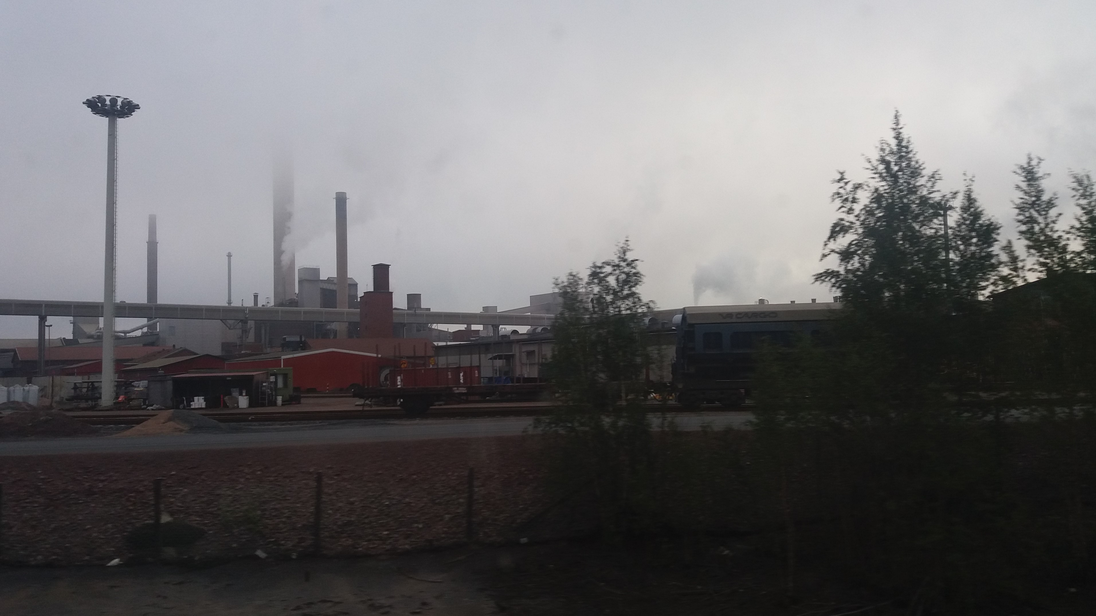 Industrial area in Harjavalta, Finland.